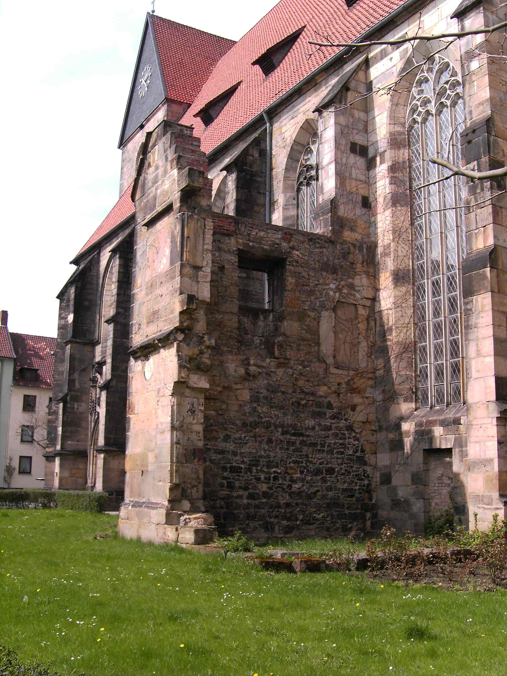 Hildesheim, Neustädter Markt, Lambertikirche